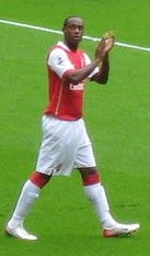 English football (soccer) player Justin Hoyte